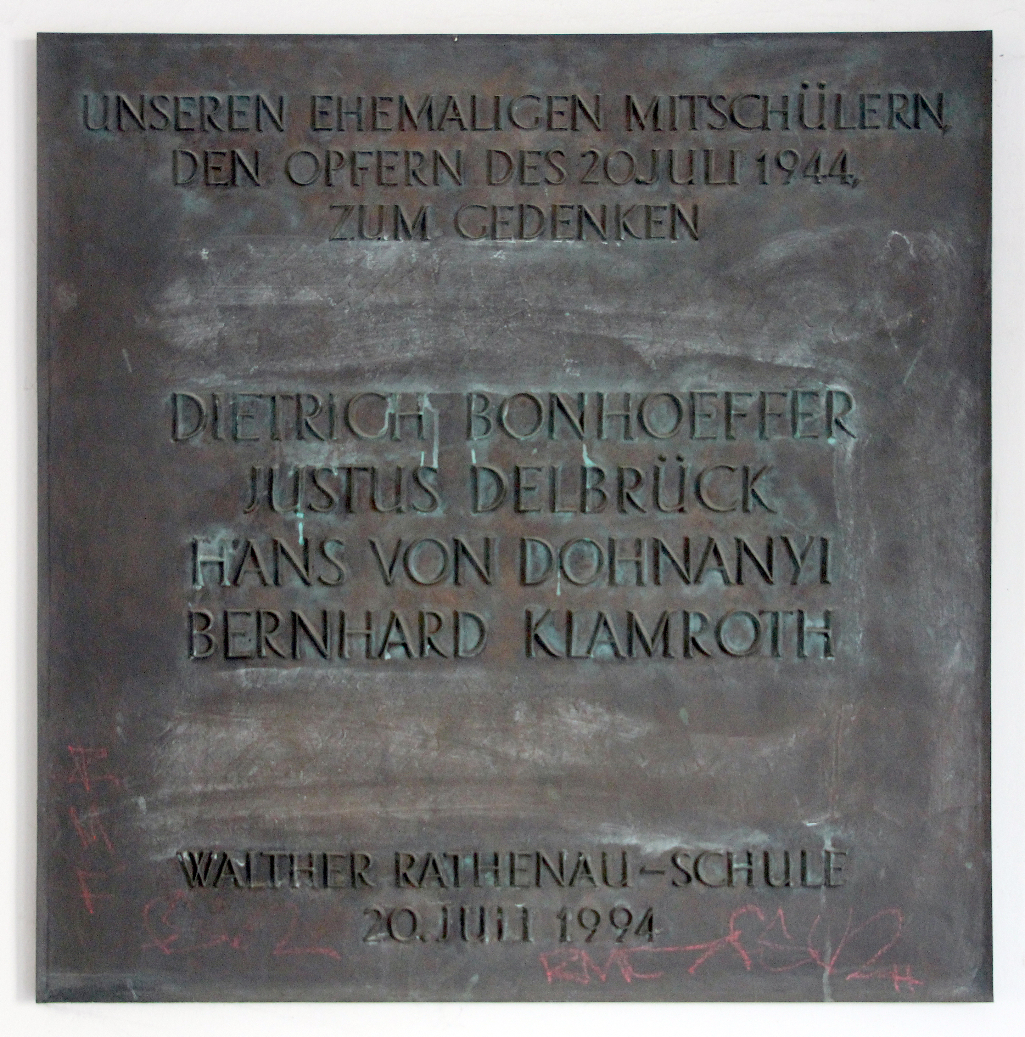 Memorial plaque, 20 Juli 1944, Herbertstraße 2-6, Berlin-Grunewald, Germany